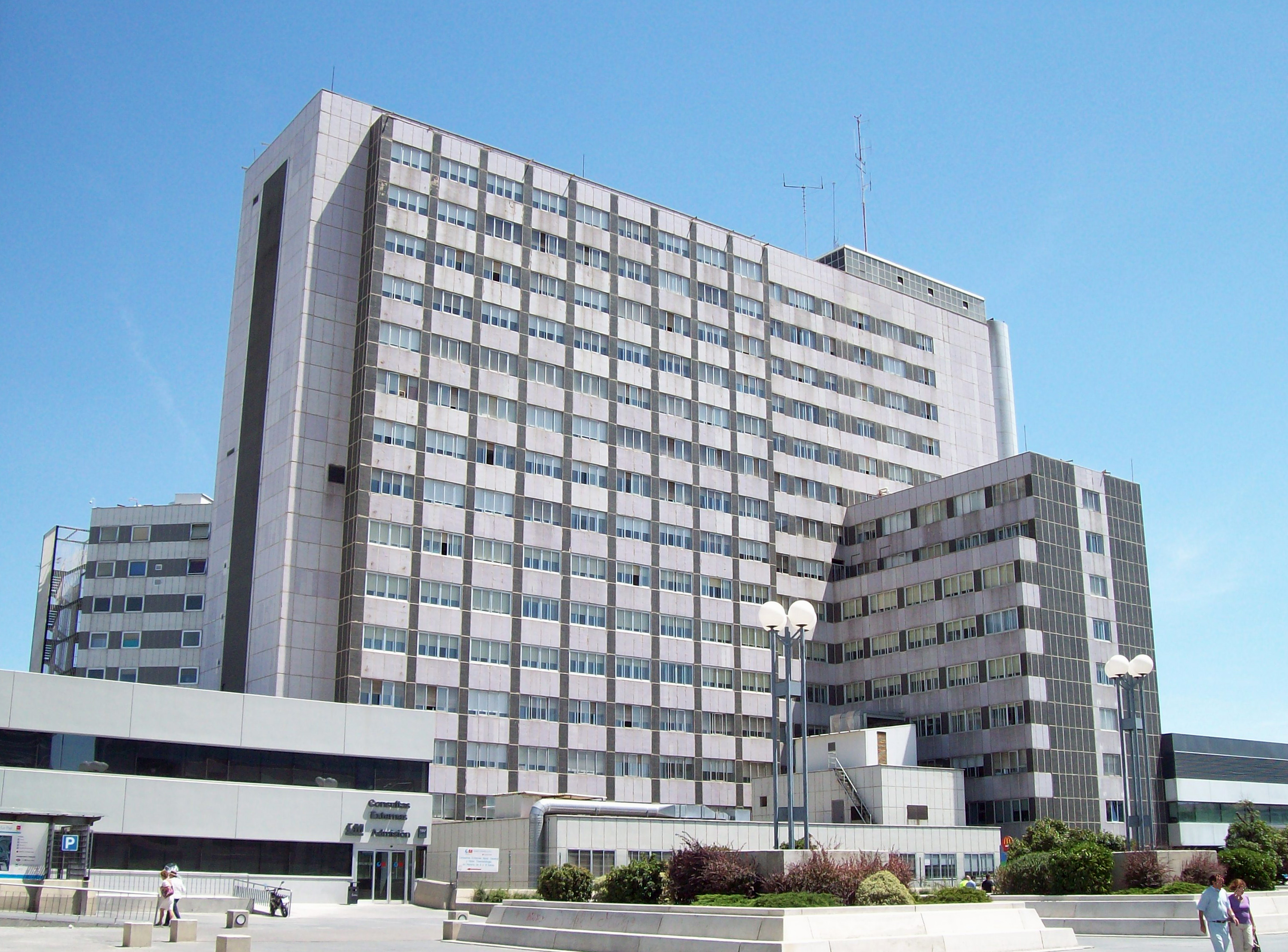 View of La Paz University Hospital in Madrid (Spain), in Fuencarral-El Pardo district. Buildings were made in the 1960's.